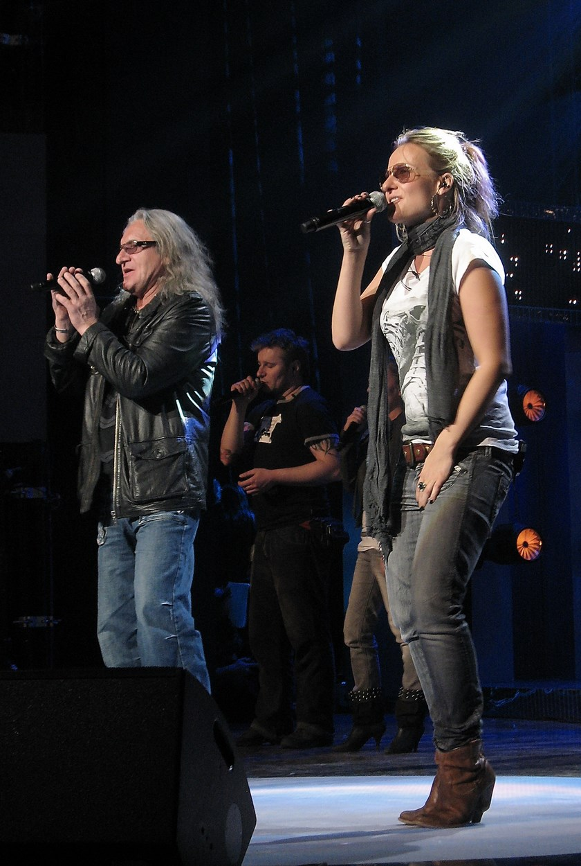 P. Markowska & G. Markowski on the stage (2010).